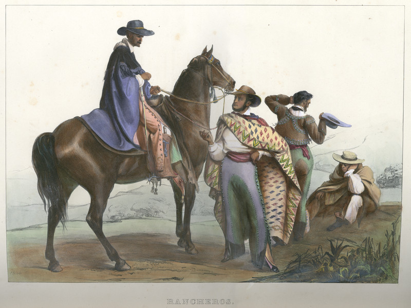 Mexican rancheros, 1834. From Voyage pittoresque et archéologique dans la partie la plus intéressante du Mexique par C. Nebel, Architecte. 50 Planches Lithographiées avec texte explicatif.